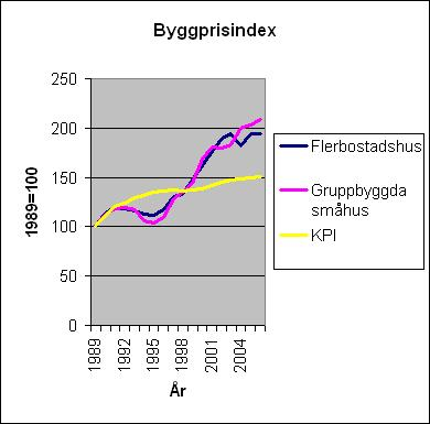 Byggprisindex, index of cost for building houses in sweden